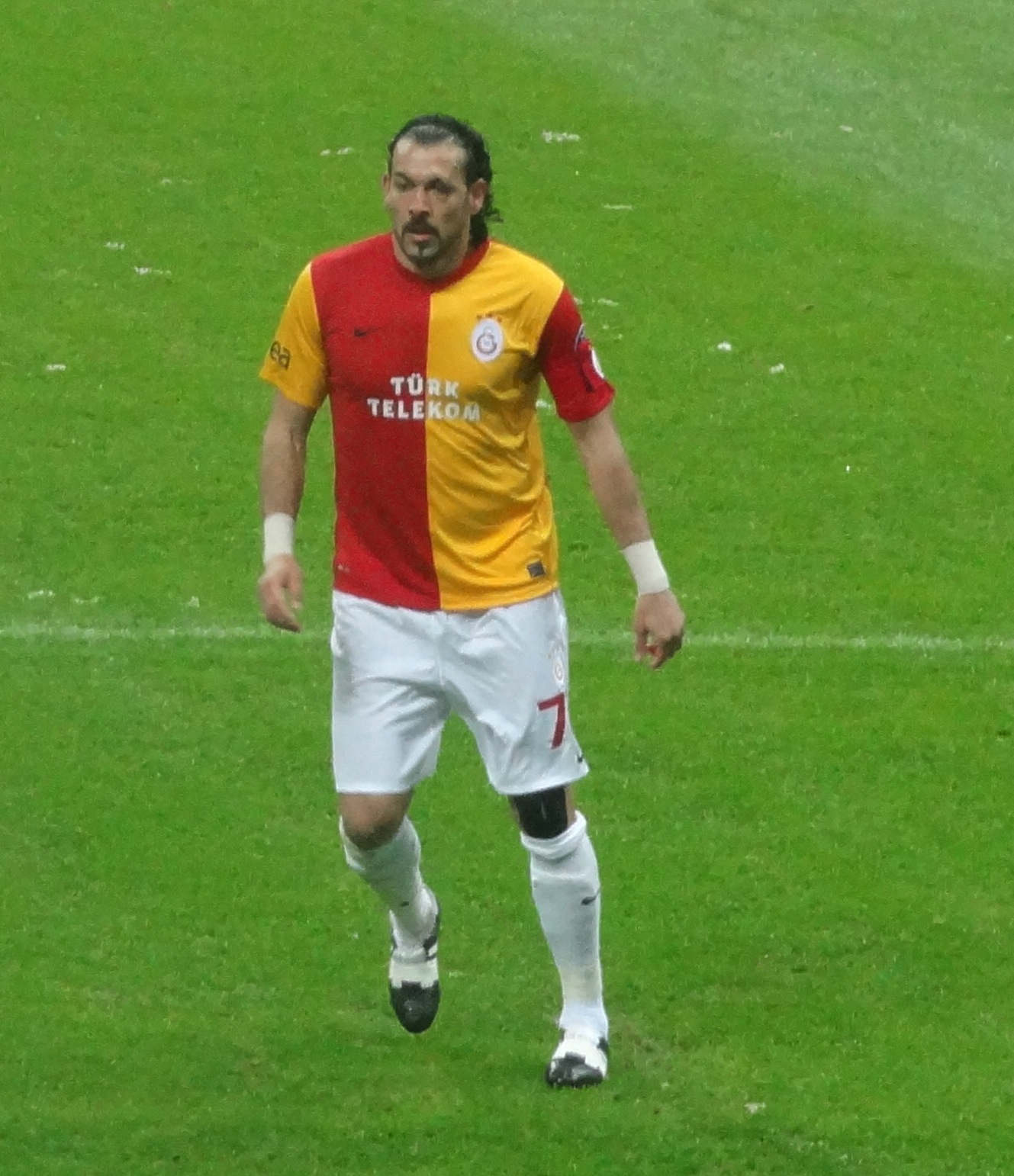 servet çetin karabük karşısında